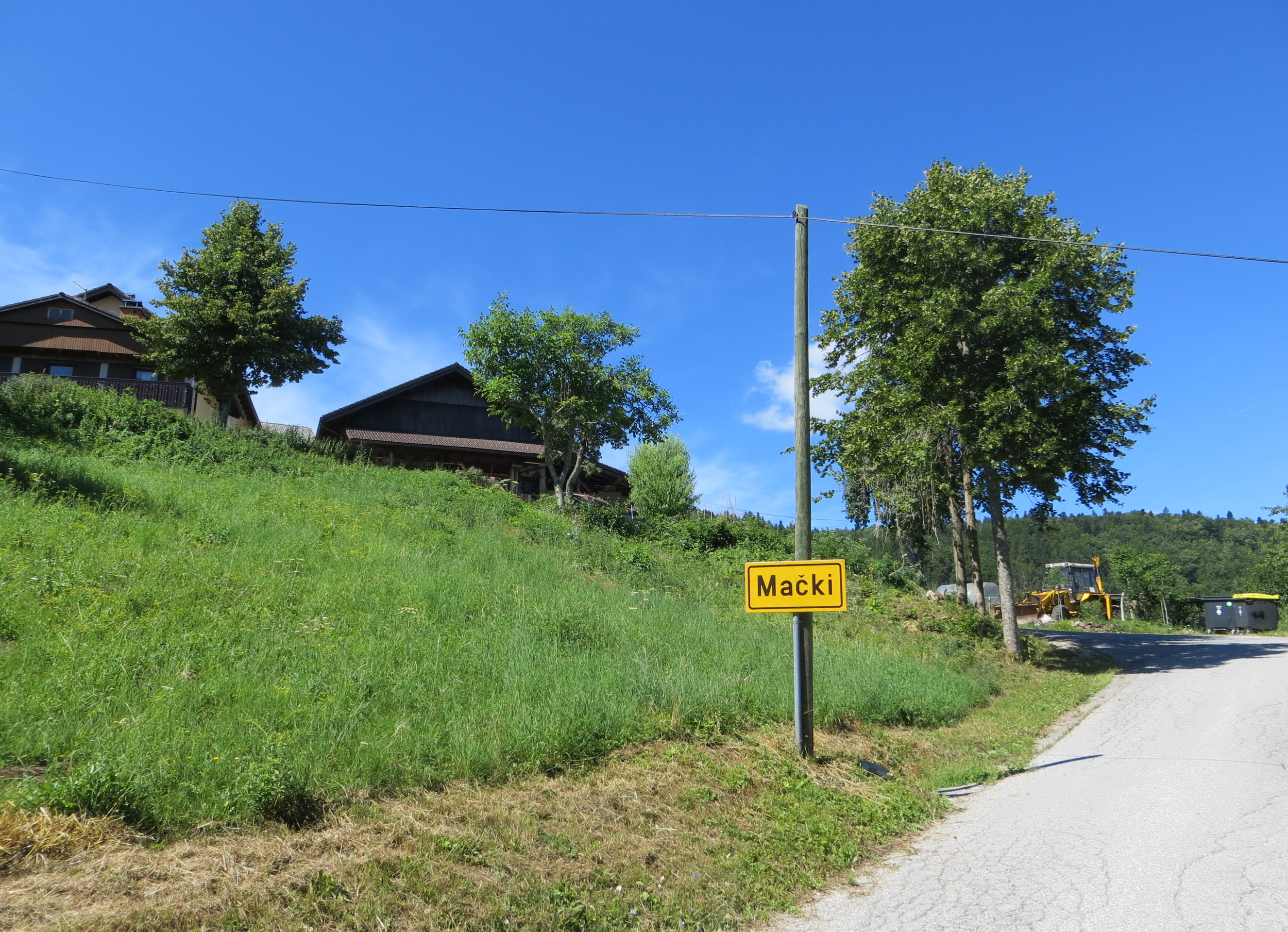 Mački, Municipality of Velike Lašče, Slovenia